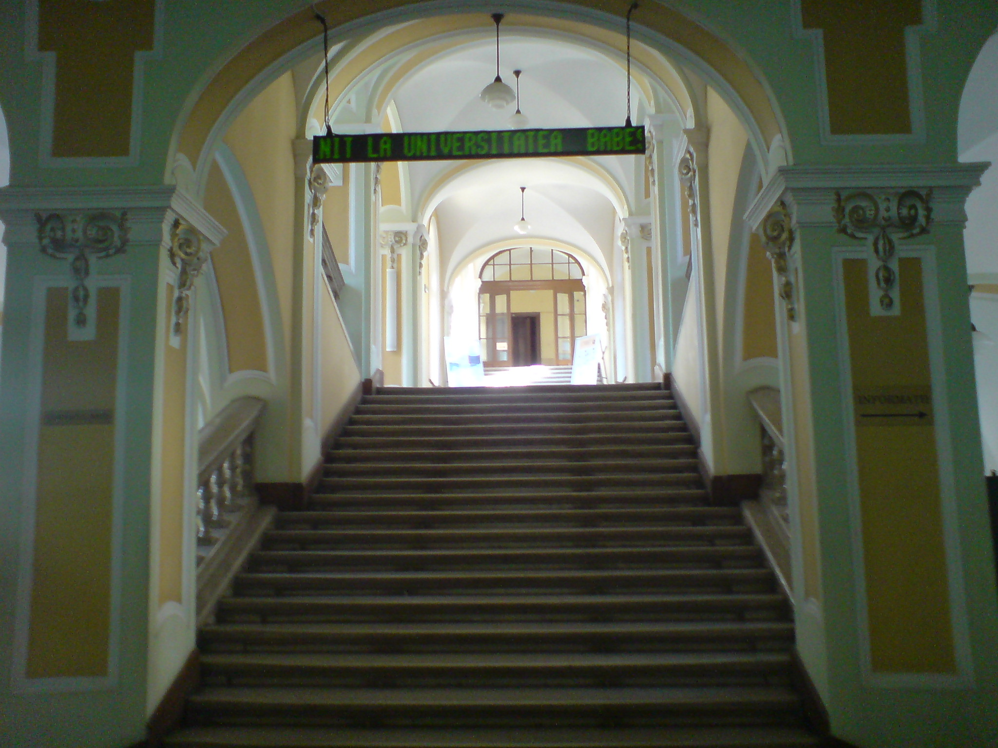 The Main Entrance Hall of the Babeş-Bolyai University, Cluj-Napoca, Romania